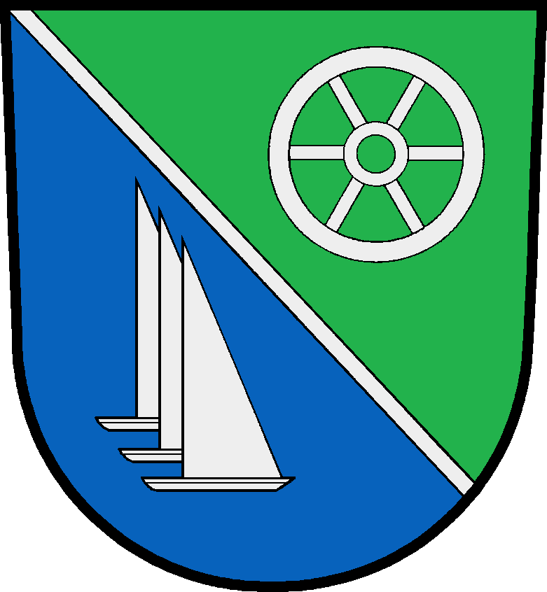 Coat of arms of the municipality Pogeez in Schleswig-Holstein, Germany.